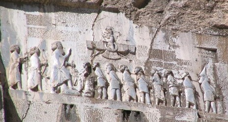 Darius I the Great's inscription. Possibly an influence in the stele series for the Ptolemies, III, IV, and V-(V for the Rosetta Stone); Ptolemy II also had a Victory Stele, though not bilingual.